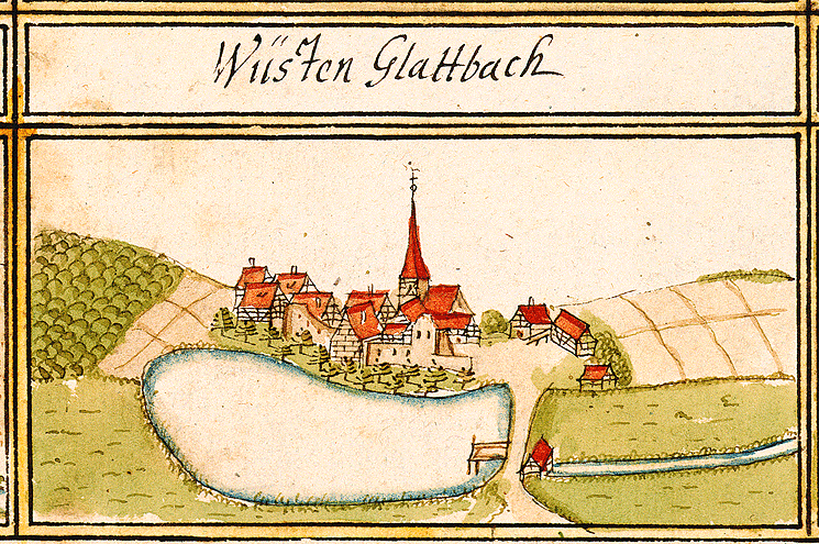 View of Kleinglattbach, Vaihingen an der Enz, from the forest register books created by Andreas Kieser